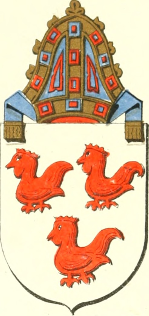 Coat of arms of Robert Cockburn, Bishop of Dunkeld. Identifier: lacunarbasilicae00geddrich Title: Lacunar basilicae Sancti Macarii, aberdonensis: the heraldic ceiling of the cathedral church of St. Machar, old Aberdeen Year: 1888 (1880s) Authors: Geddes, W. D., Sir (William Duguid), 1828-1900 Duguid, Peter Subjects: Old Machar Church (Aberdeen, Scotland) Heraldry -- Scotland Heraldry, Ornamental Publisher: Aberdeen : Printed for the New Spalding Club